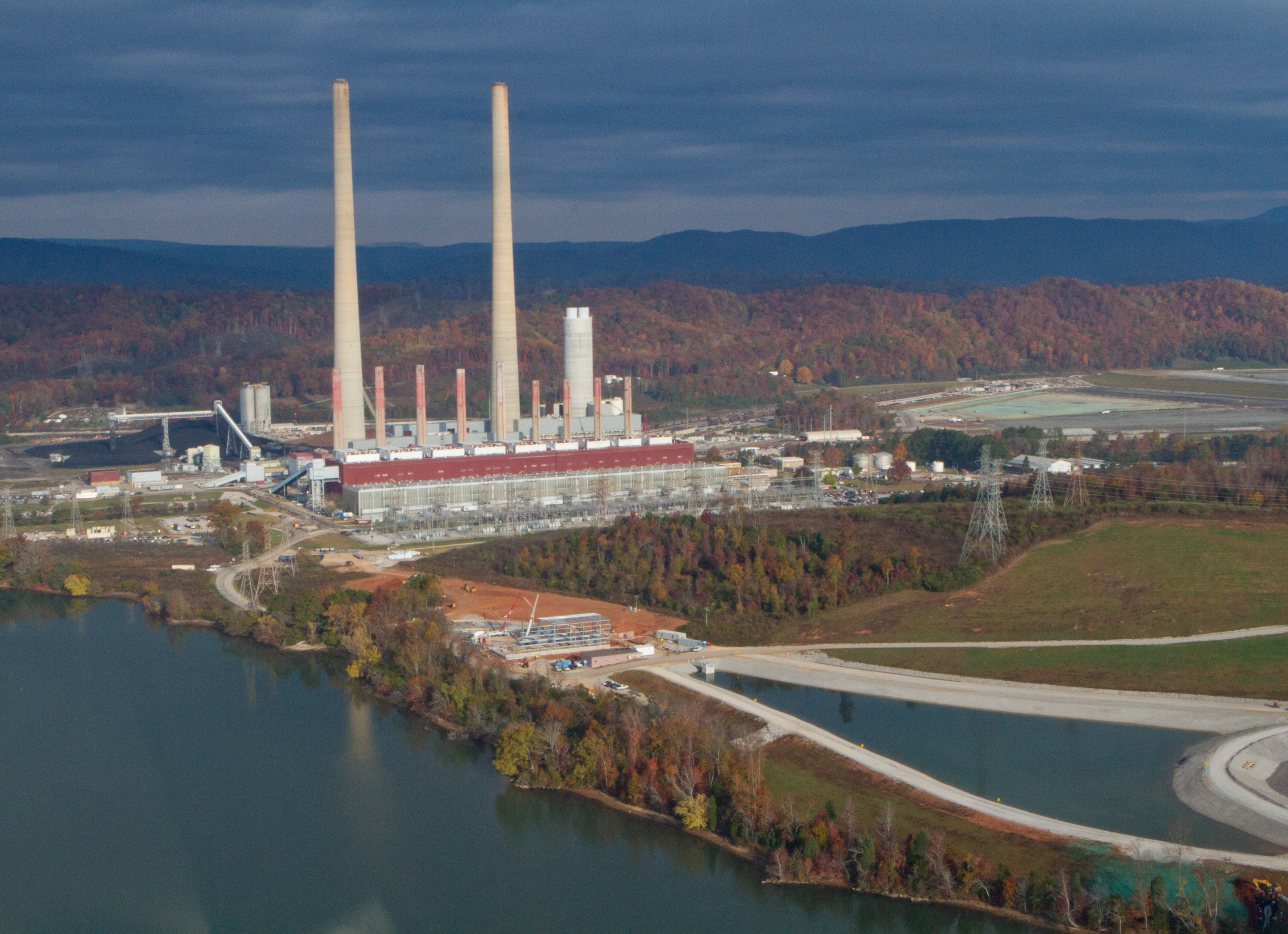 Kingston Fossil Plant